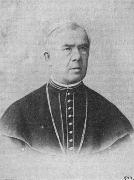 Ferenc Lönhart